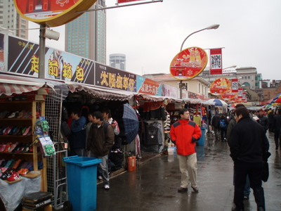 Description XiangYang market, Shanghai, China. Find Gucci, Armani, D&G and many others for dirt cheap price at XiangYang market. In other words, this is a market sells fake/ imitated products. Source own work ( Author cedventure Created in 2006